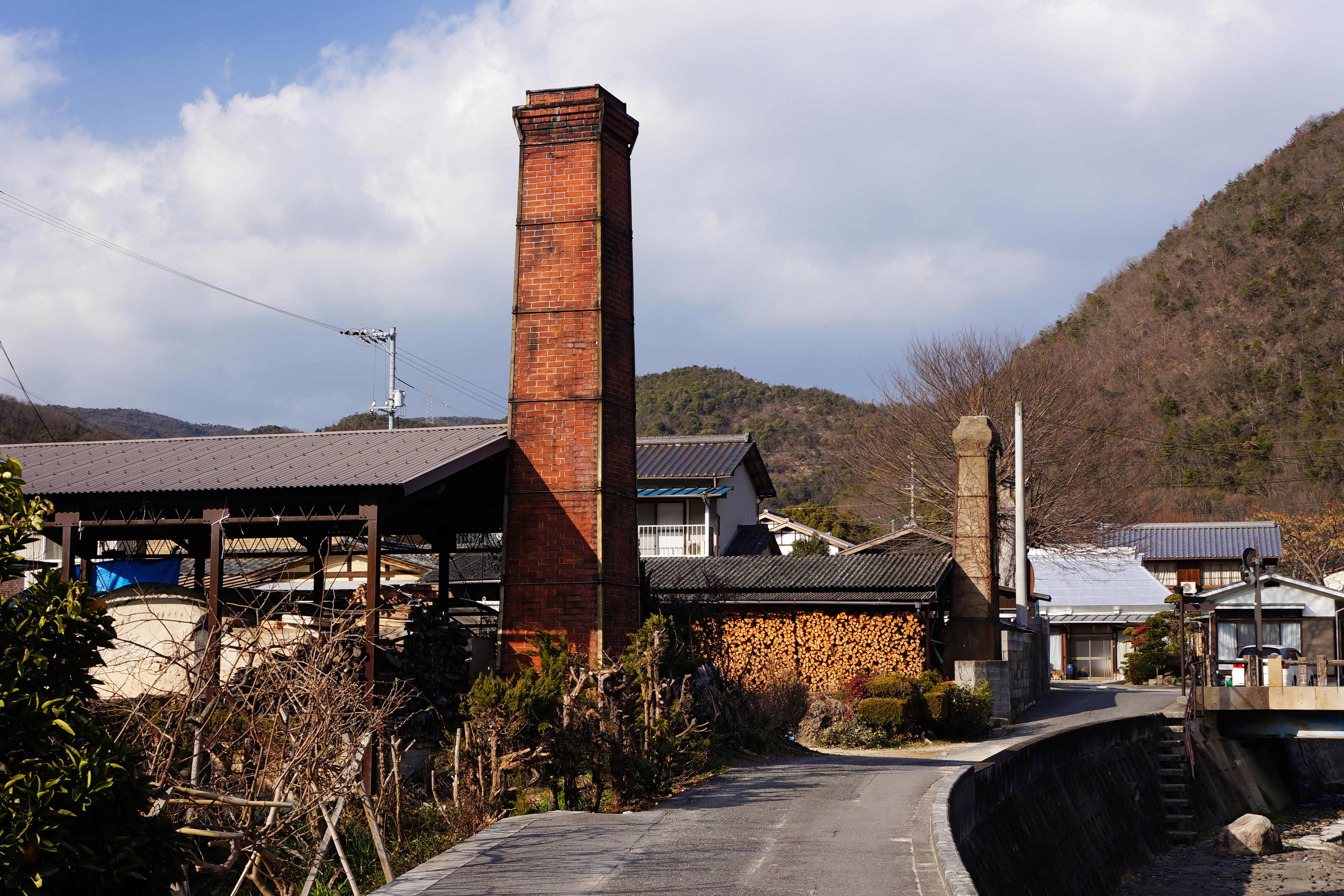 At Imbe, Bizen, Okayama prefecture, Japan